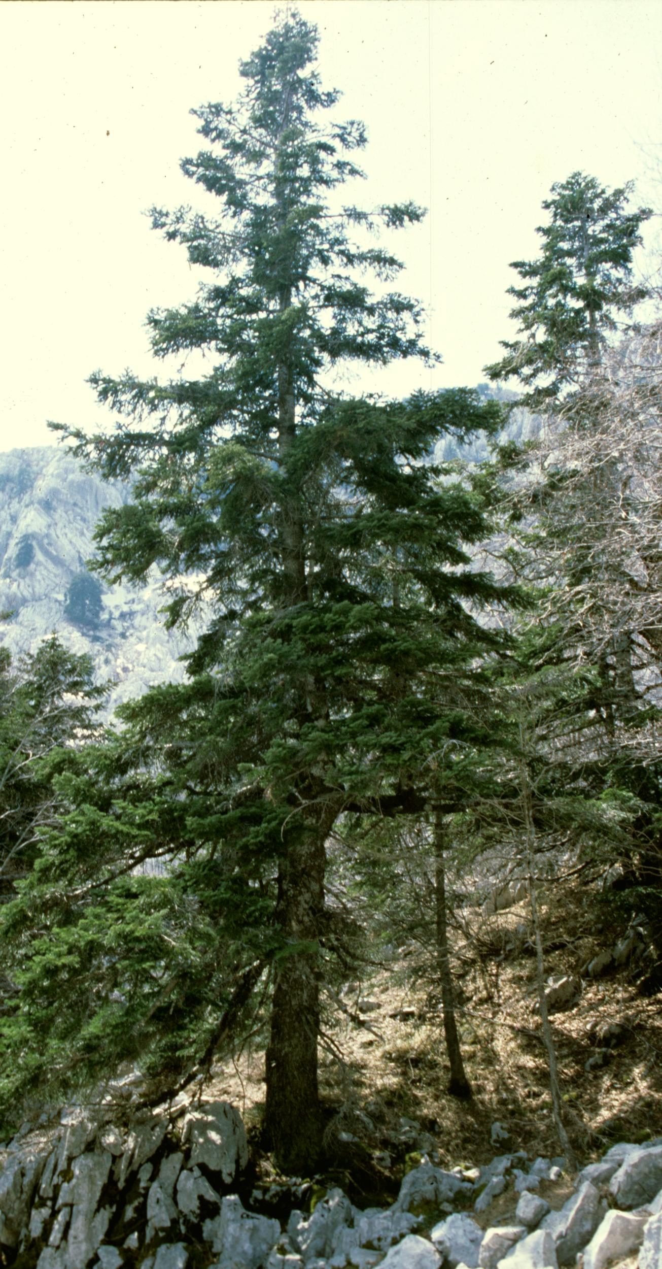 Silver fir on Orjen Silver fir on Orjen Copyright (c) 2002 Pavle Cikovac.